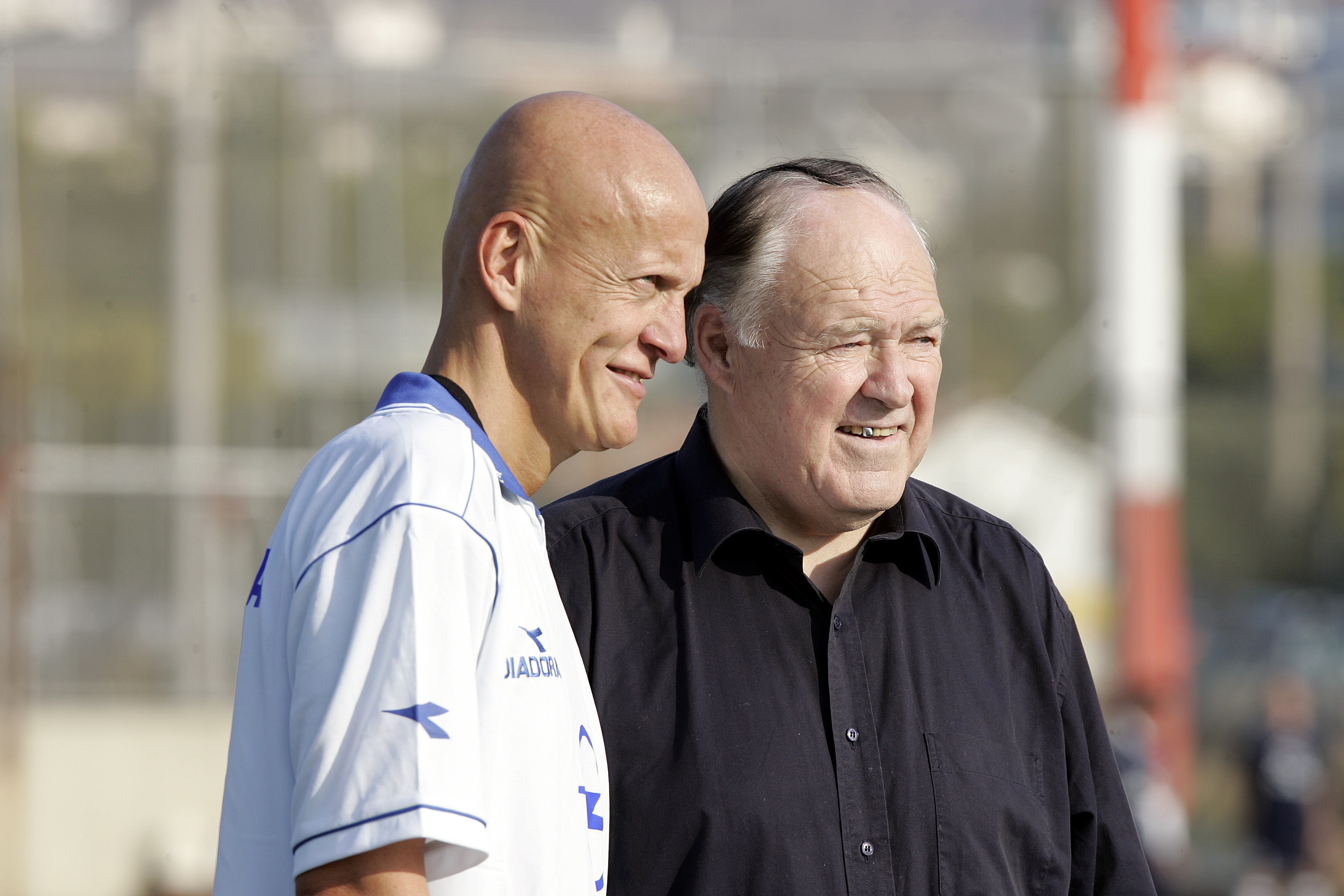 football (soccer) coach